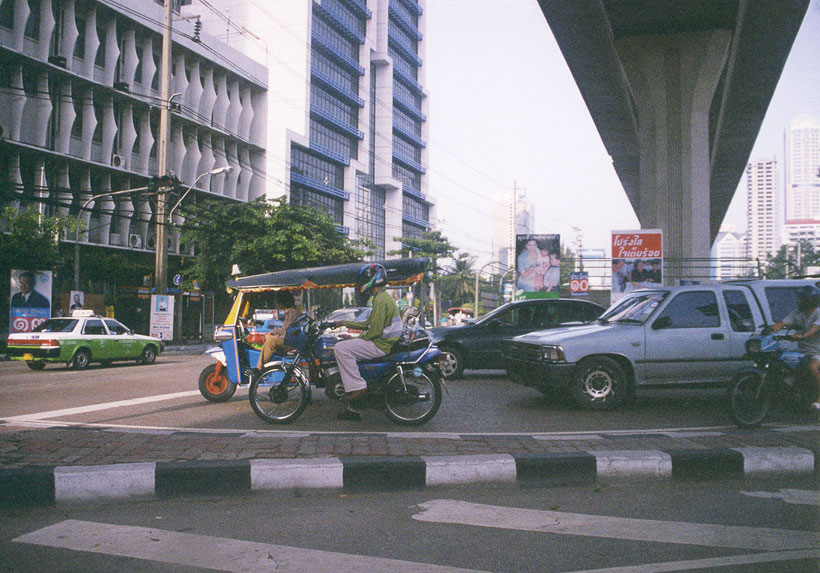 Streets in Bangkok, with Tuk-Tuk